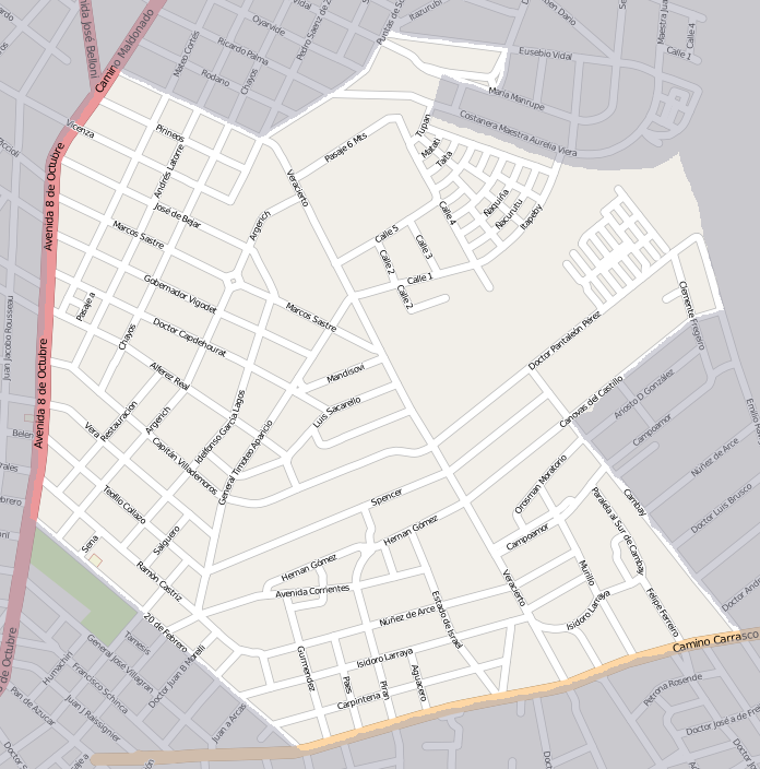 Street map of Maroñas - Parque Guaraní, Montevideo, exported from OpenStreetMap. I added shading to delimit the barrio. This map may be incomplete, and may contain errors. Don't rely solely on it for navigation.